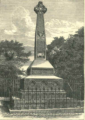 78 Highlanders Monument on Castle-Hill Edinburgh